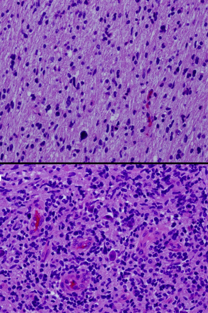 Histologic geographic variability of DIPG. Hematoxylin and eosin stains from different sections of a single tumor showing low-grade (top) and high-grade (bottom) areas.